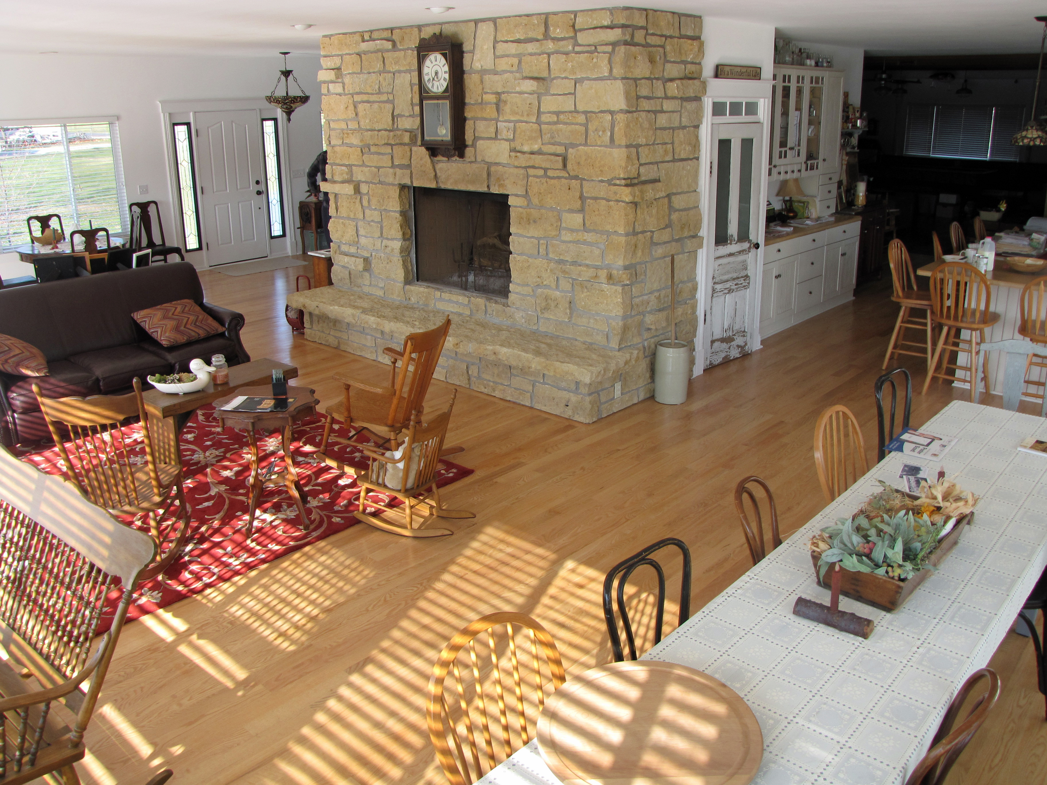 The sparklingly well-maintained interior of an Englert relative's private "replica" home on the site of the "summer cottage" of Will and Etta Englert. It offers panoramic views of the Iowa River and City Park on the opposite bank.